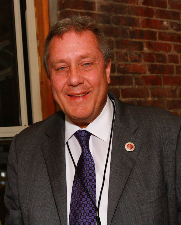 Andrew Ronan and Council Member Danny Dromm